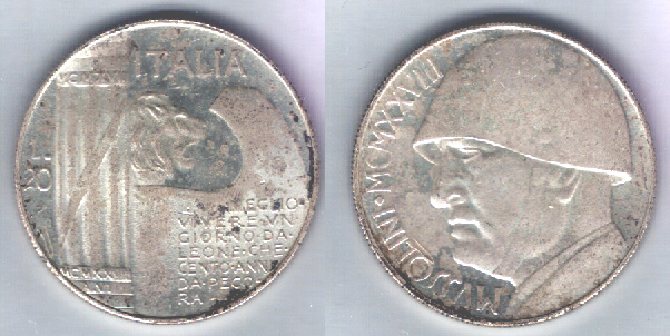 a fake 20 lire silver, Benito Mussolini with helmet - 1927. Italian coins during fascism only showed the head of the king Vittorio Emanuele III on obverse. Silver plated medall.